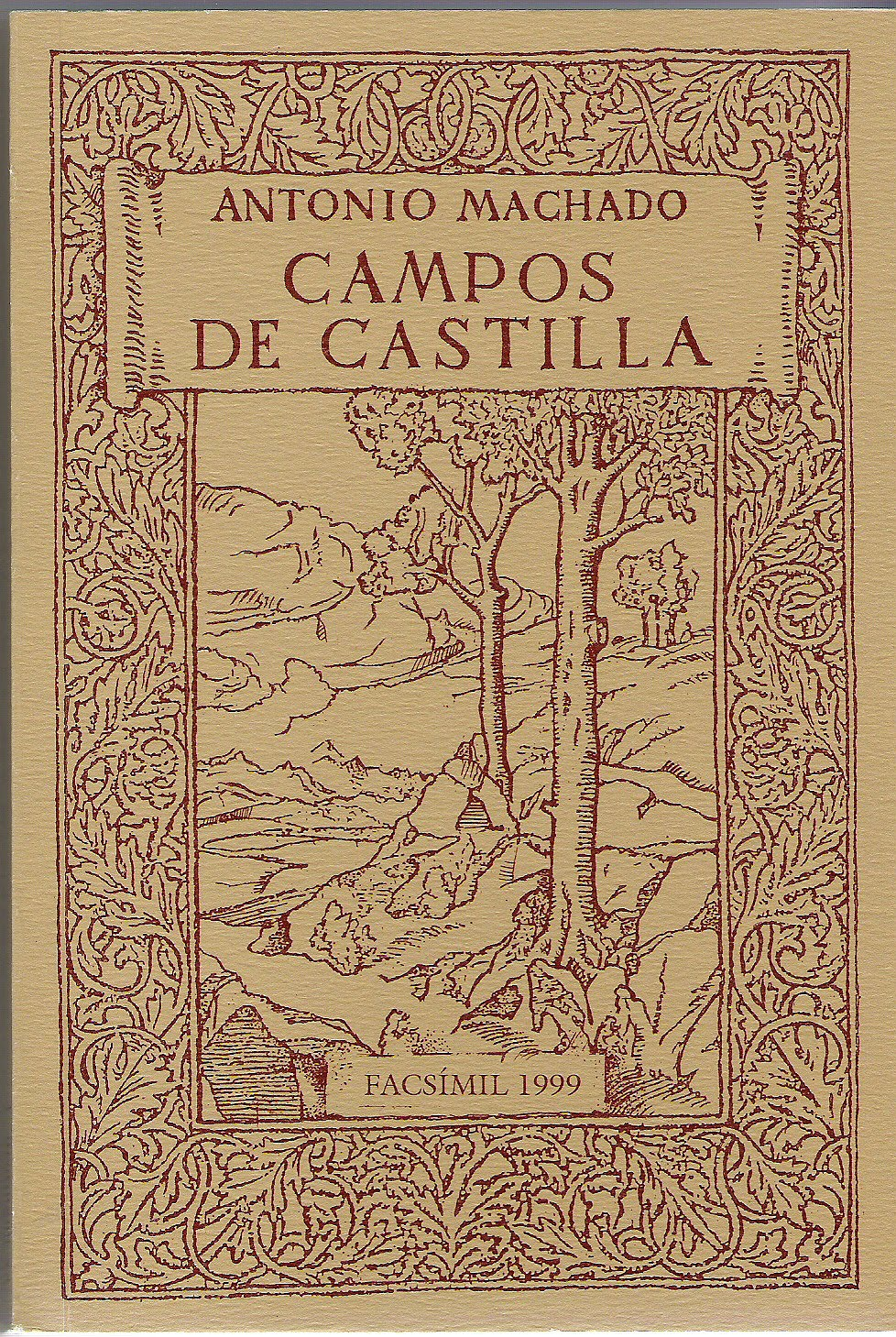 Title pages of Poesías completas, by Antonio Machado (1875 - 1939).